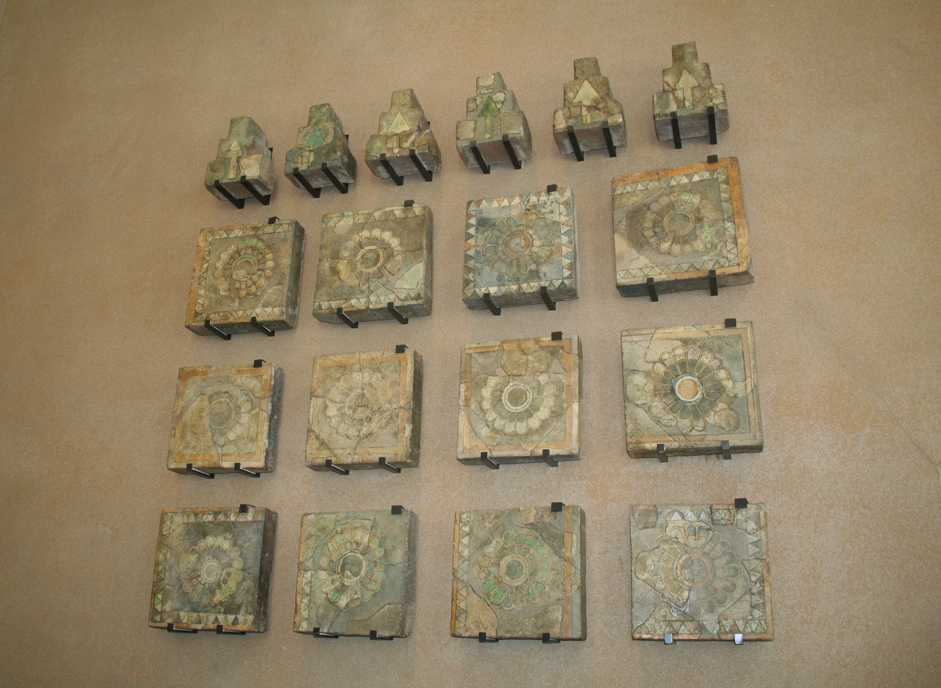 Ancient Persian Objects at Louvre Museum, Paris, 2006 - Photo by Pejman Akbarzadeh (Persian Dutch Network) آثار هنری تاریخی ایران در موزه لوور ، پاریس، 2006 - عکس از پژمان اکبرزاده - شبکه ایرانیان هلند